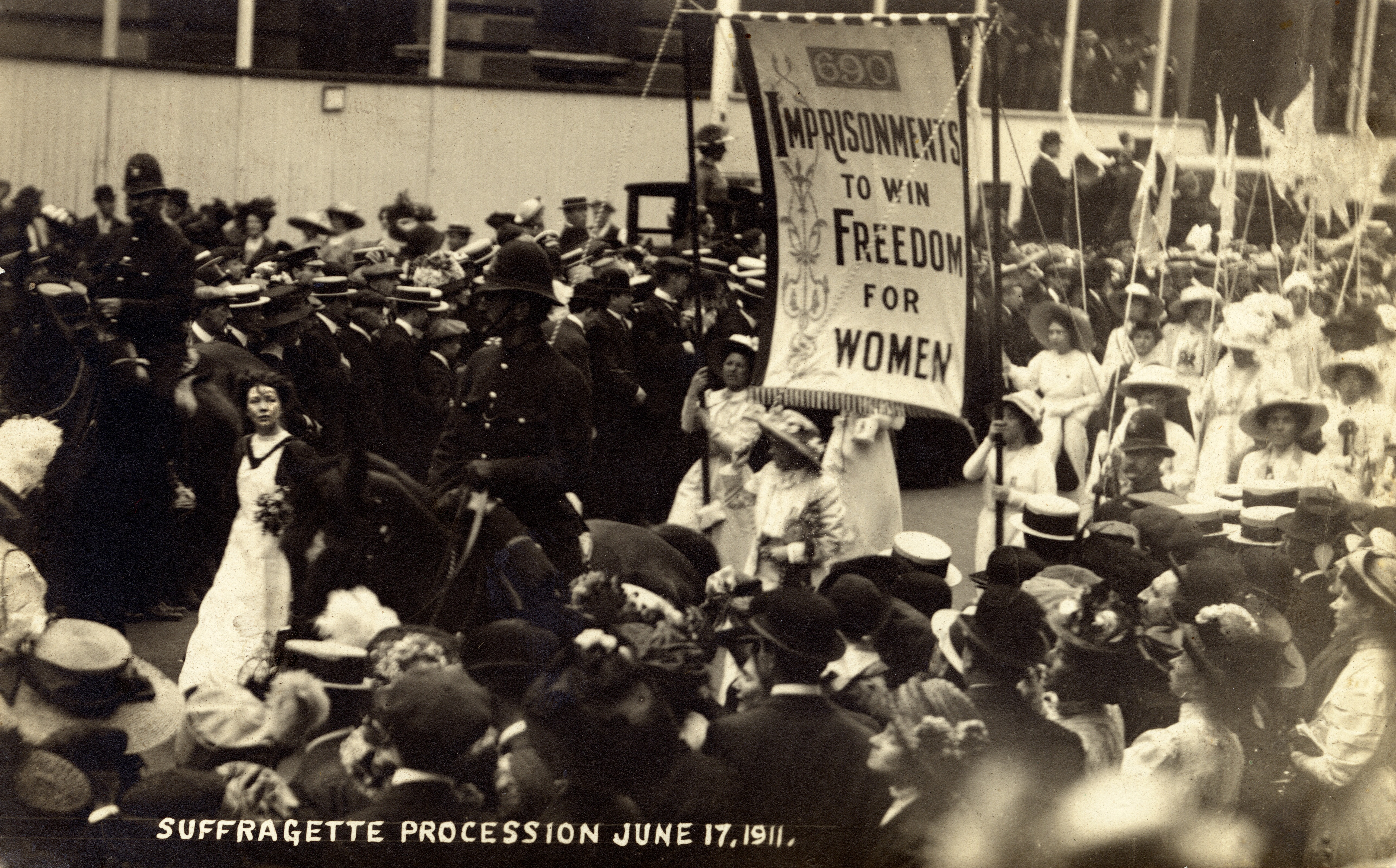 7JCC/O/01/055Photographic postcard, printed, paper, monochrome, suffragette process taken from above, Christabel Pankhurst in a white dress and academic robes walking ahead of a banner '690 IMPRISONMENTS TO WIN FREEDOM FOR WOMEN', printed inscription in white ink 'Suffragette Procession 17 Jun 1911', manuscript note in black ink on the front 'The Leaders'